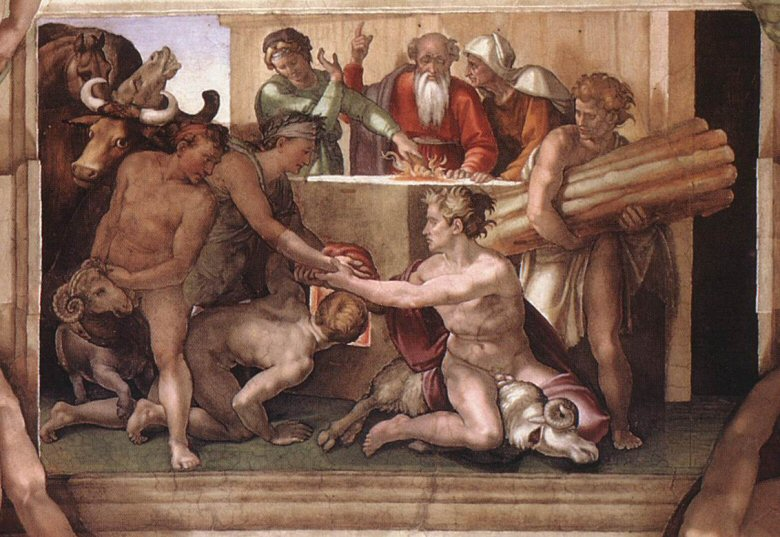 Sacrifice of Noah. Fresco in Sistine chapel